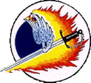 360th Fighter Squadron - World War II - Emblem